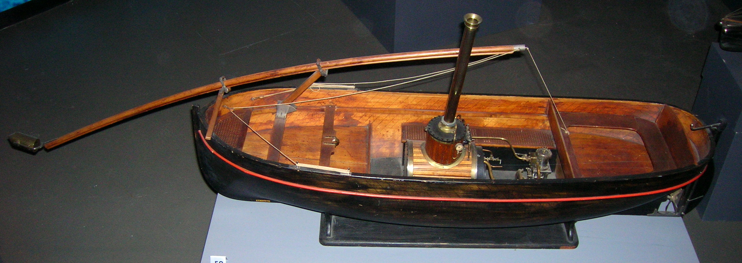 Boat used for carrying torpedoes, France, 1880.